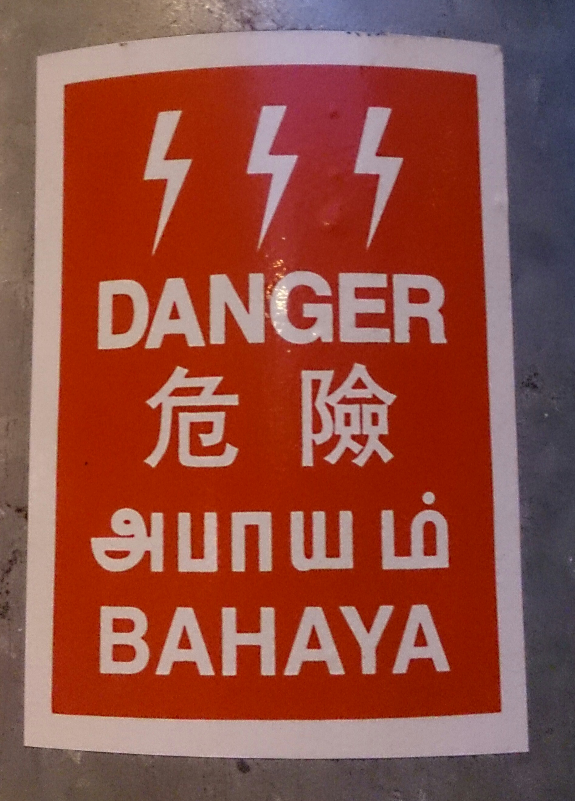 Electrical danger sign in English, Chinese, Tamil and Malay languages